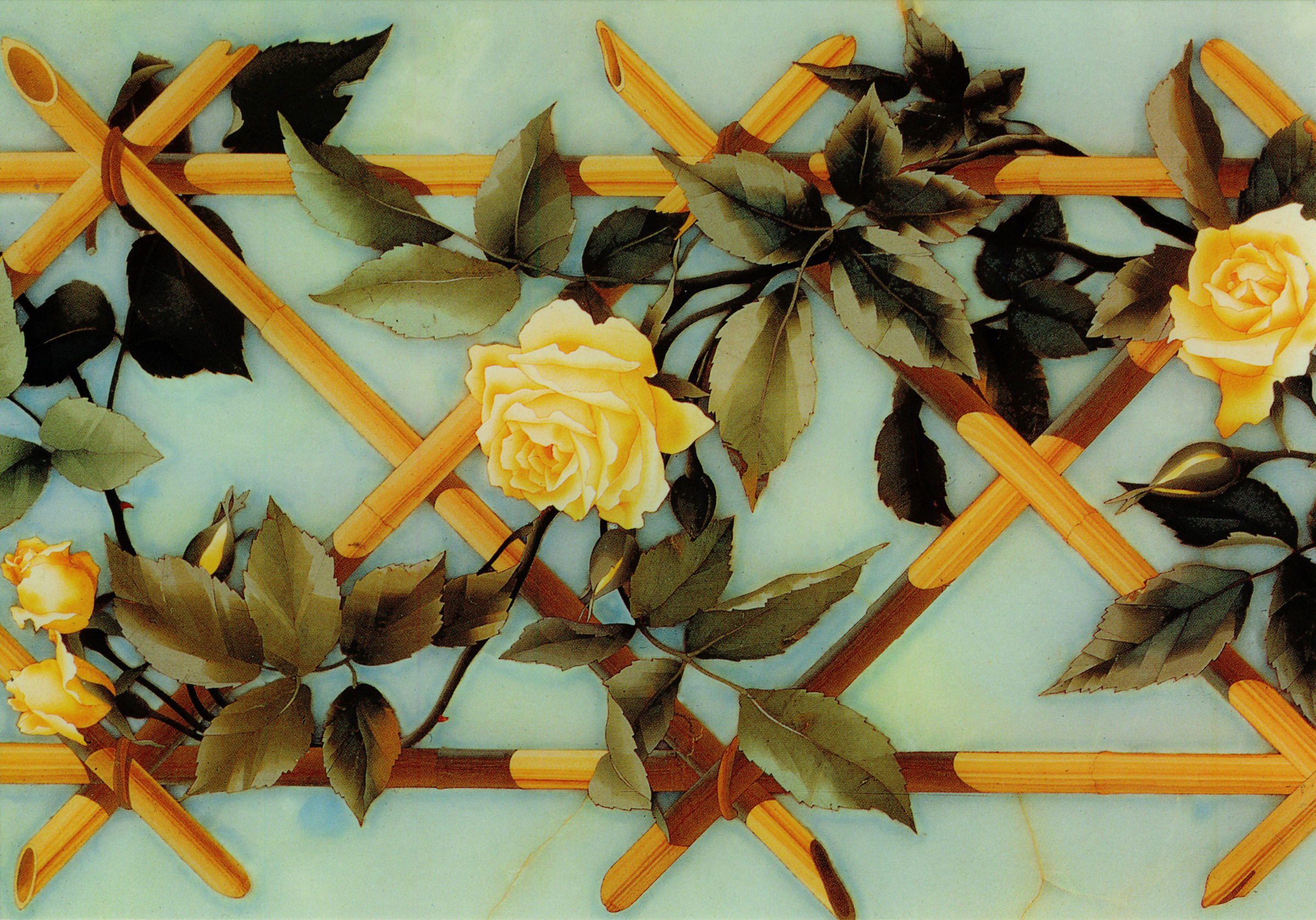 Roses over crossed canes, from Museo dell'Opificio delle Pietre Dure, Florence 1882